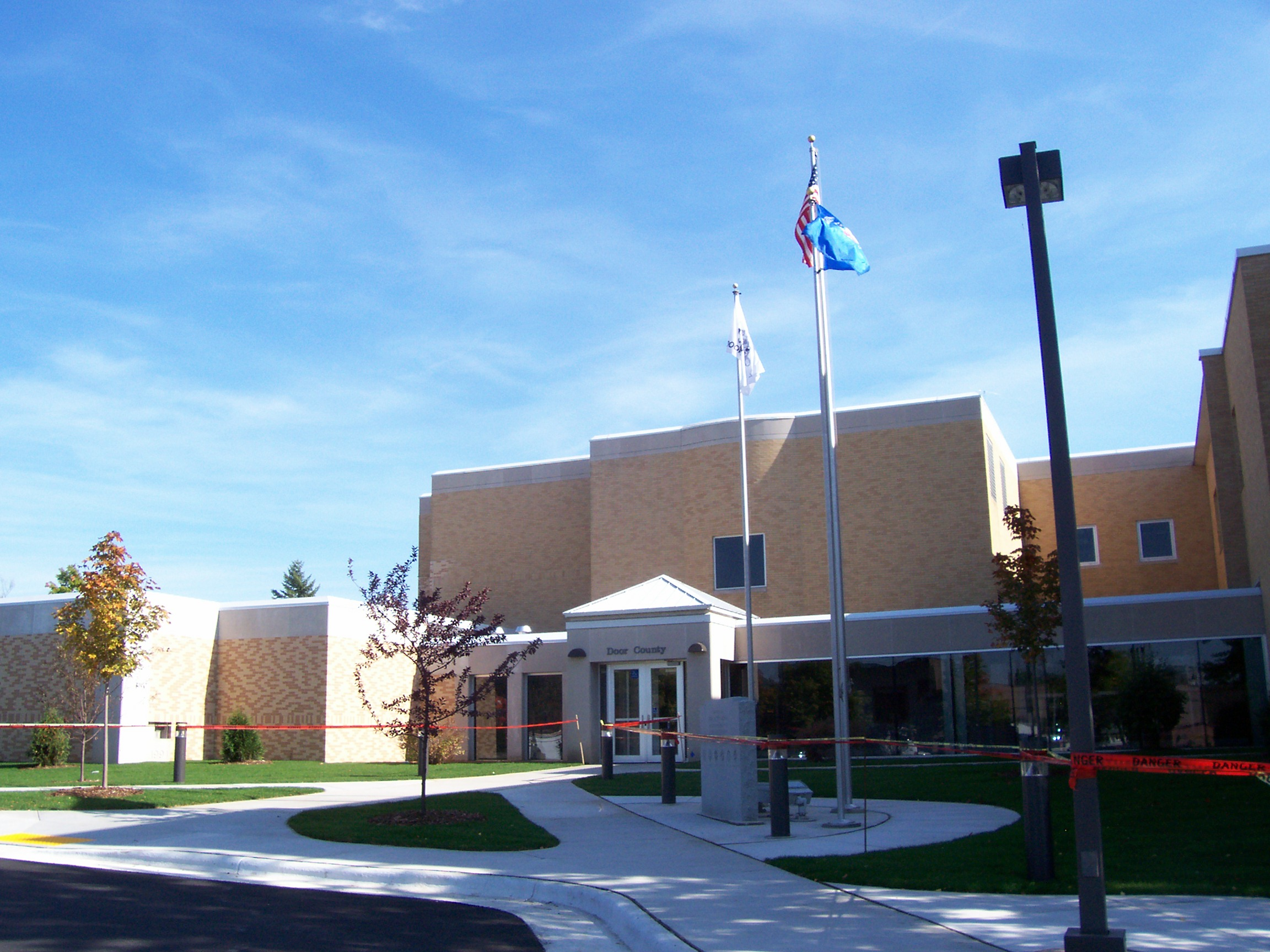 The new entrance Door County, Wisconsin courthouse while under construction.